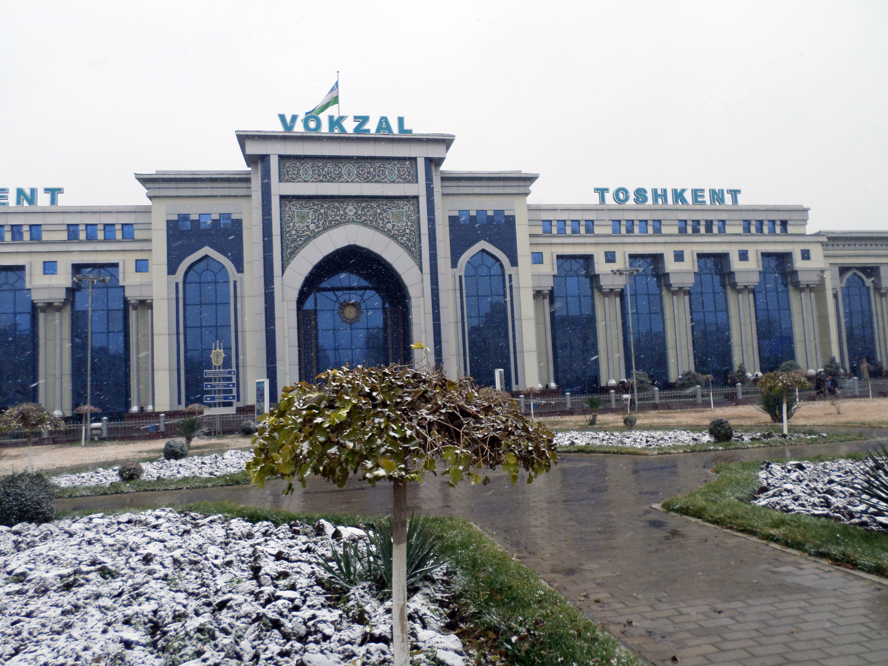 Tashkent railway station in the snow